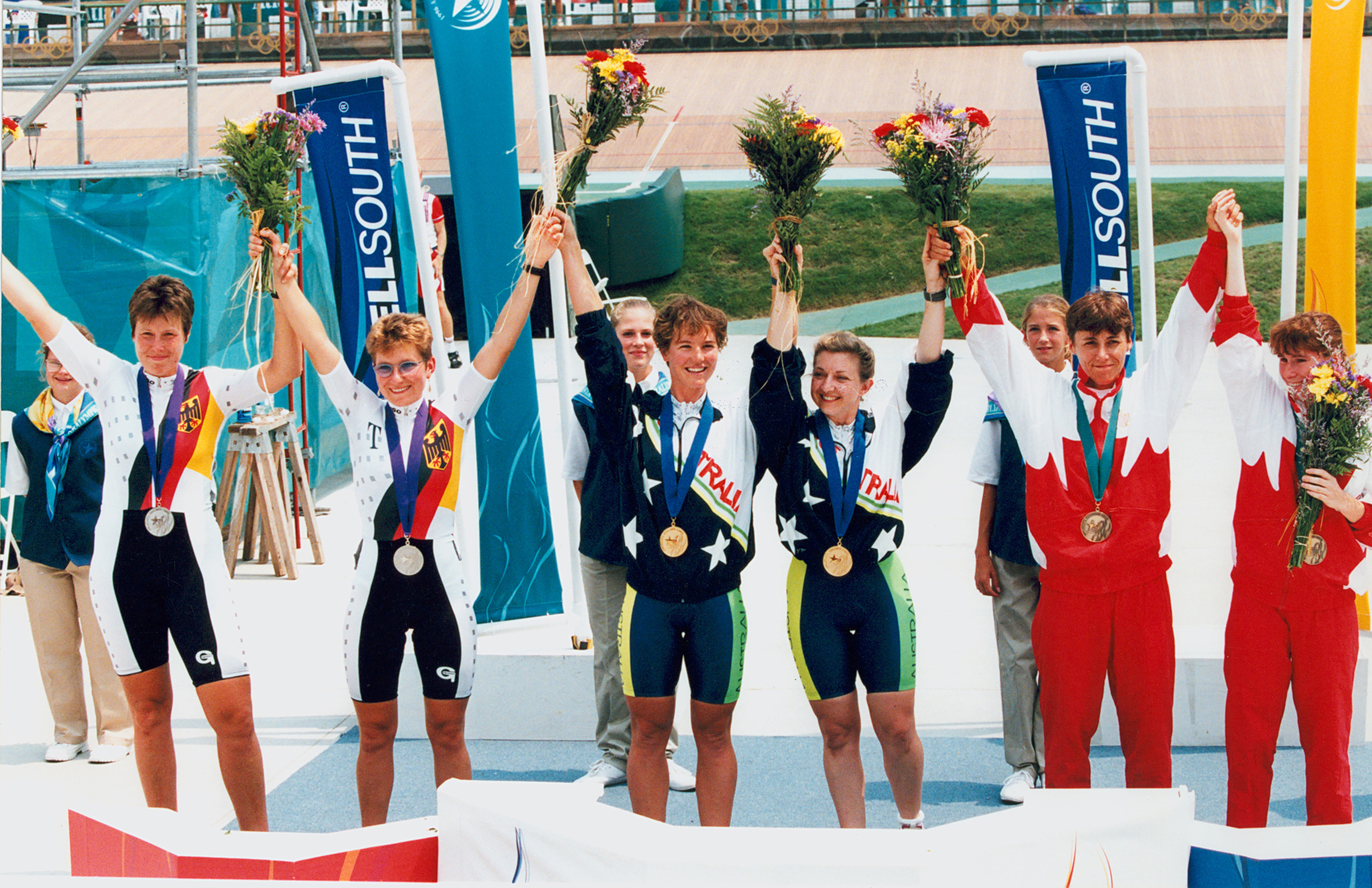 Australian vision impaired cyclist Terri Poole and her pilot Sandra Smith on the medal dais after winning gold in the Women's tandem Kilo on the track at the 1996 Atlanta Paralympic Games. Also on the podium are Elfriede Ranz (Pilot) and Ursula Egner of Germany (left, silver medal) and Guylaine Larouche (Pilot) and Julie Cournoyer of Canada (right, bronze medal).